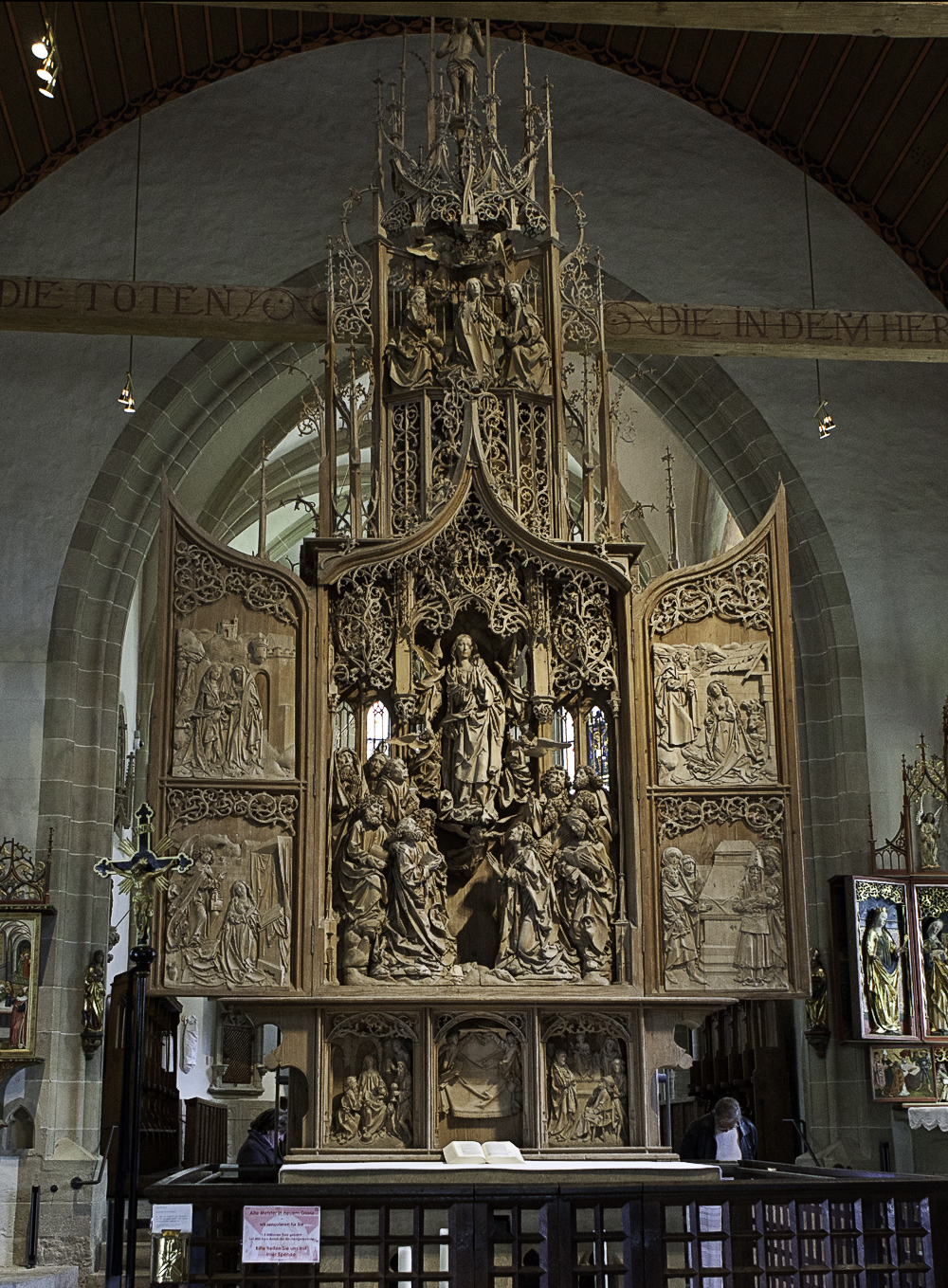 The Virgin Altar in Herrgott church of Creglingen, Bade-Würtemberg, Germany, by Tilman Riemenschneider.